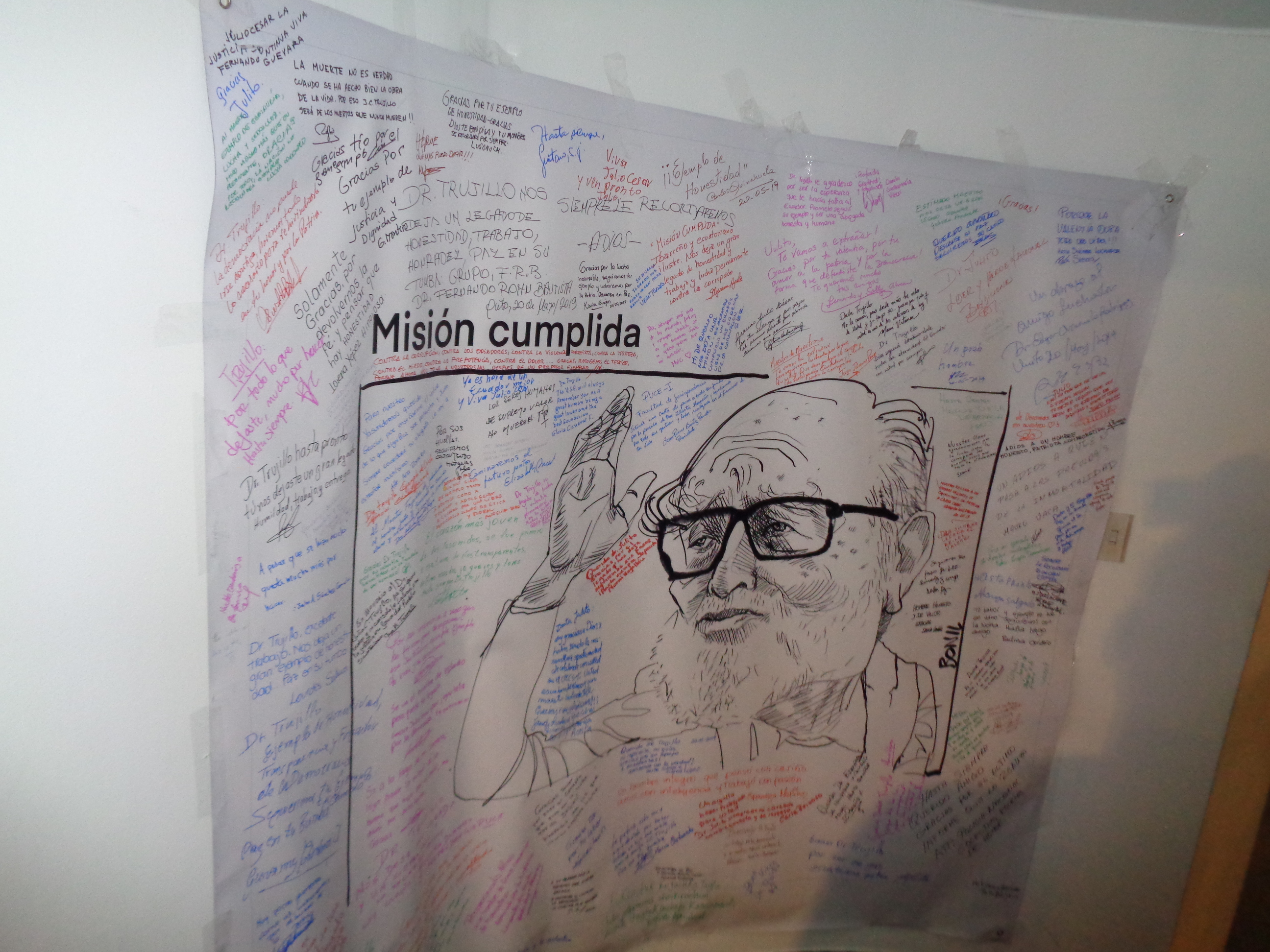 a memorial to the life of Julio César Trujillo a member of the National Congress from 1979 to 1984 a memorial to the life of Julio César Trujillo a member of the National Congress from 1979 to 1984 PUCE campus Quito 20th May 2019 PUCE campus Quito 20th May 2019